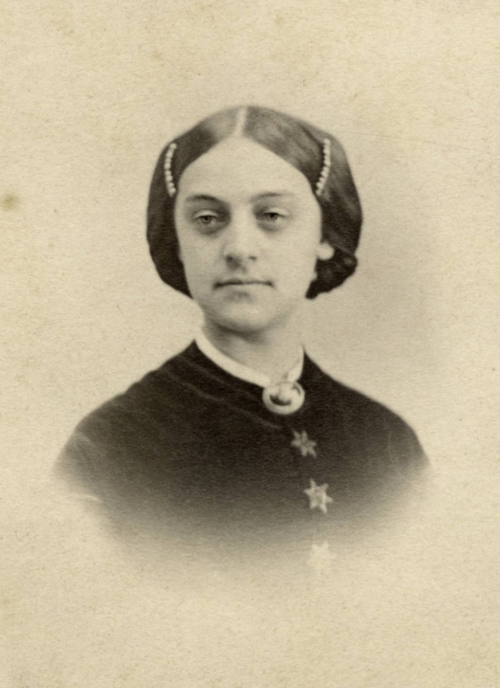 Photograph of Susan Merrill Ketcham